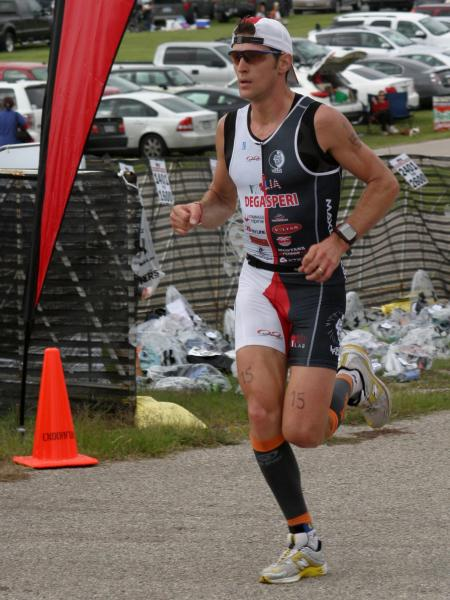 Alessandro Degasperi at Ironman 70.3 Austin, US.